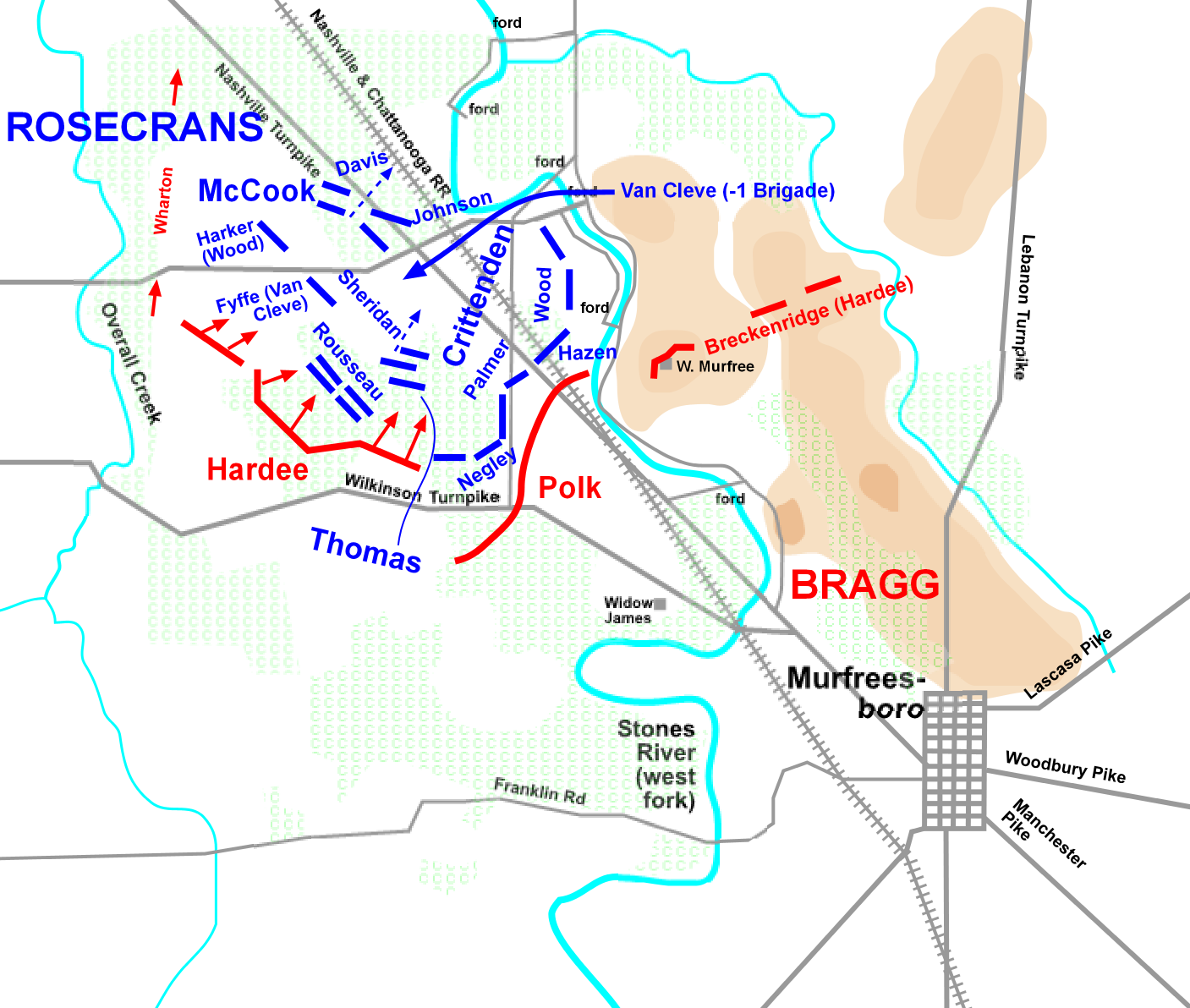 Map of the Battle of Stones River of the American Civil War. Drawn in Adobe Illustrator CS6 by Hal Jespersen. Graphic source file is available at